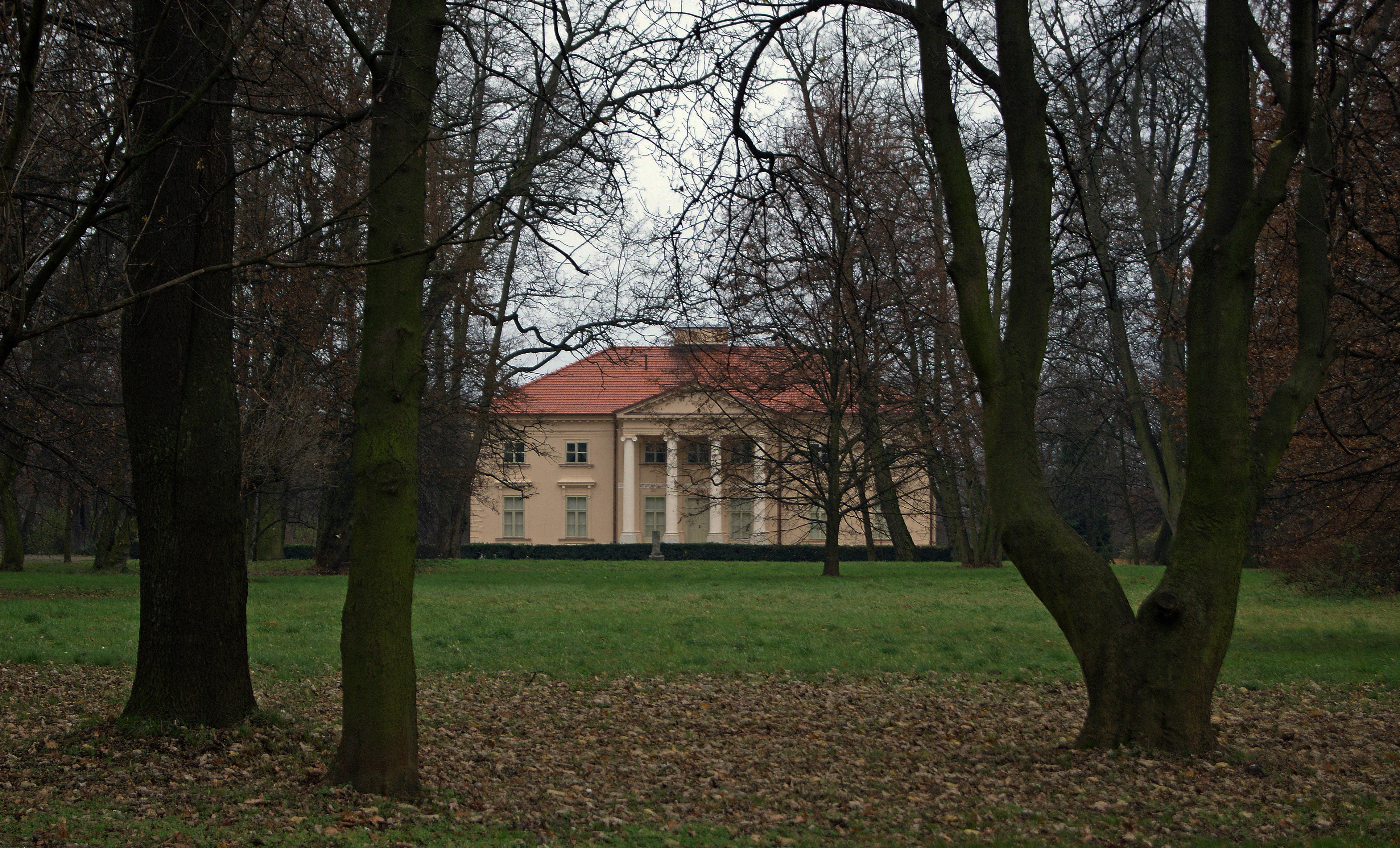 Wodziccy manor house, Igołomia village, Kraków county, Lesser Poland Voivodeship, Poland